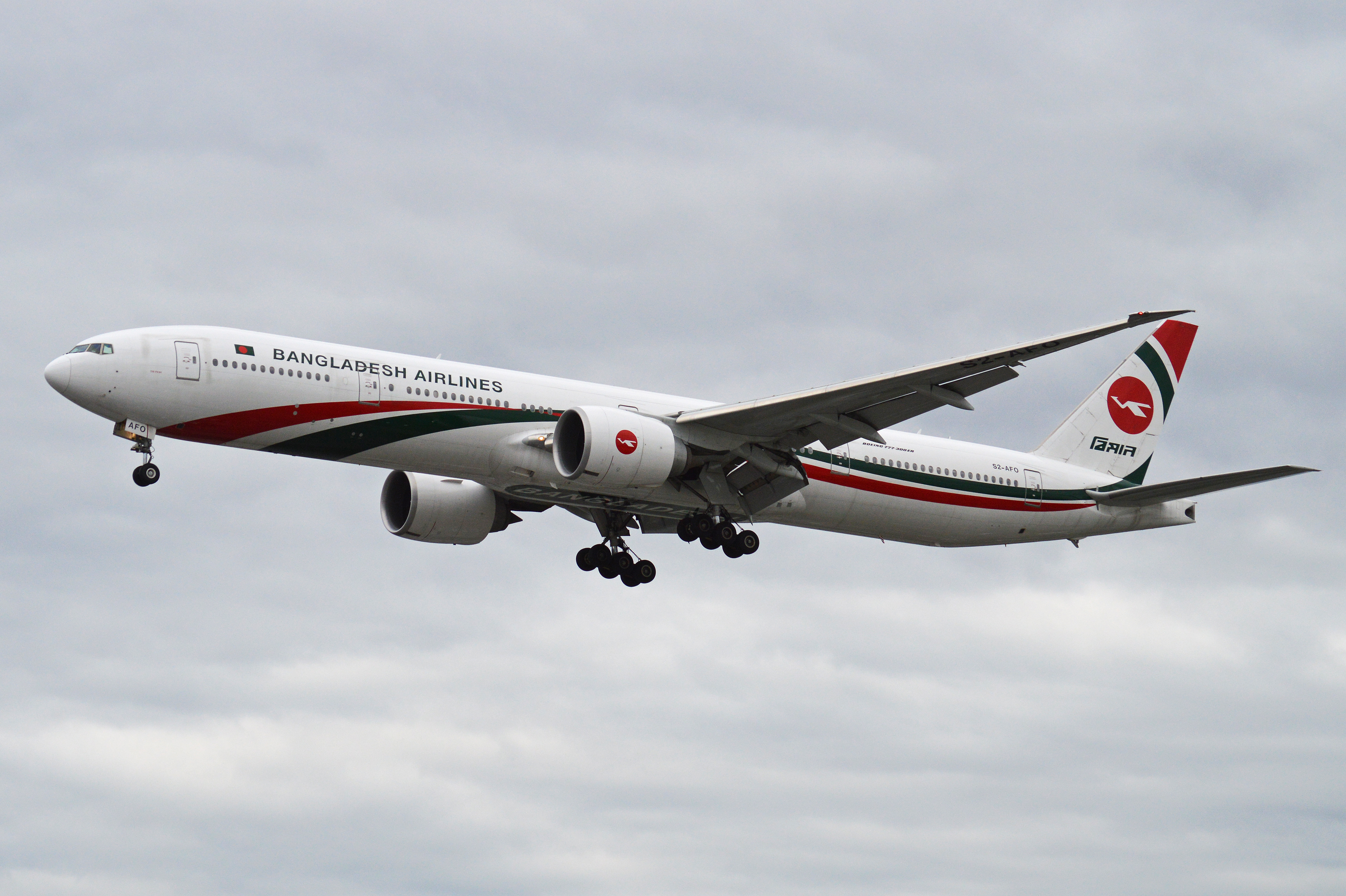 Arriving on flight BG017 from Dhaka. c/n 40122, l/n 964. London Heathrow. 5-10-2013